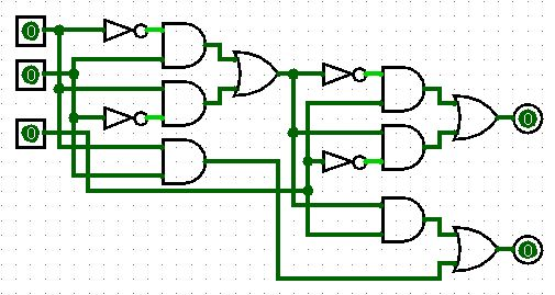 full adder